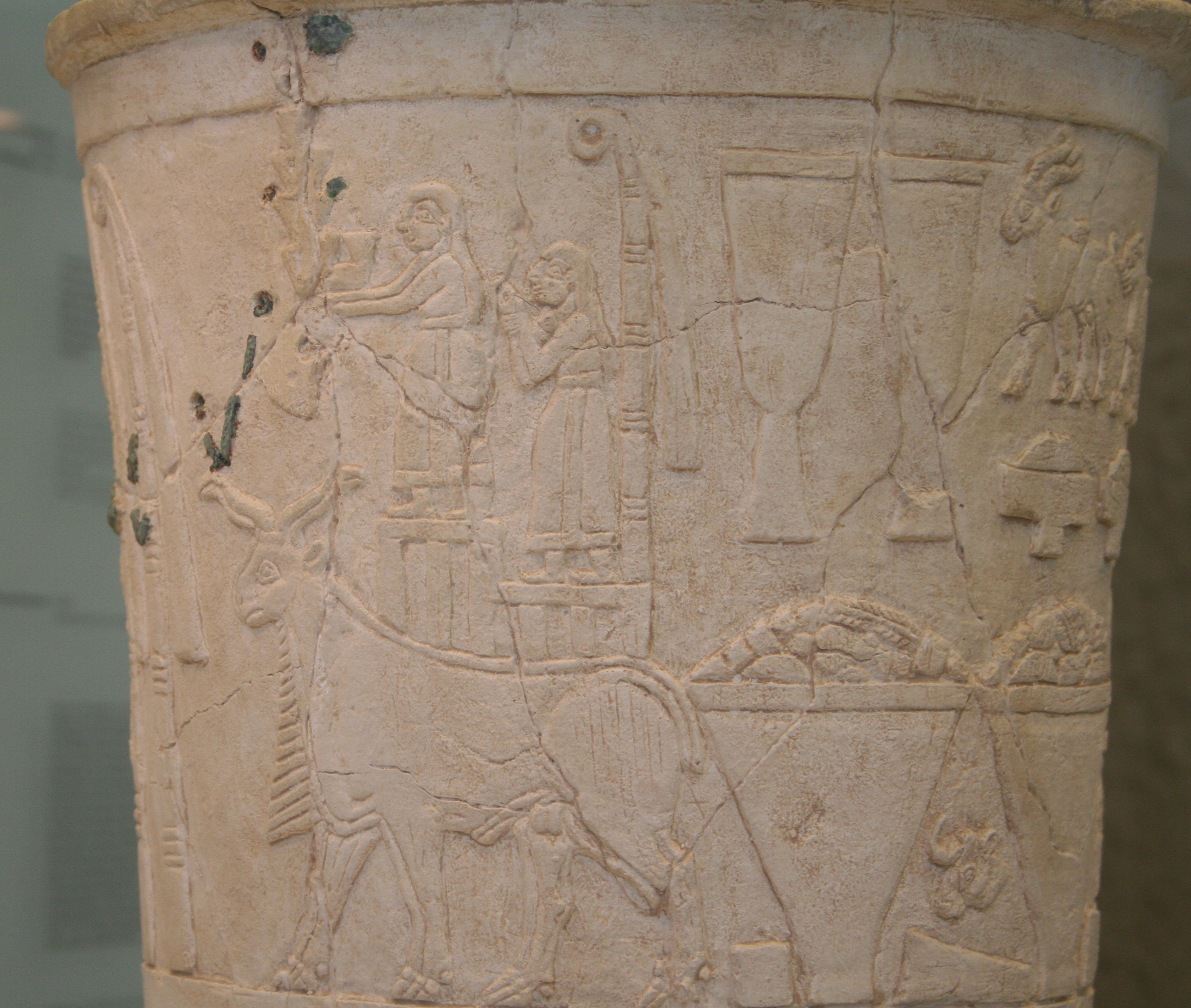 Vorderasiatisches Museum (Near East Museum), Berlin